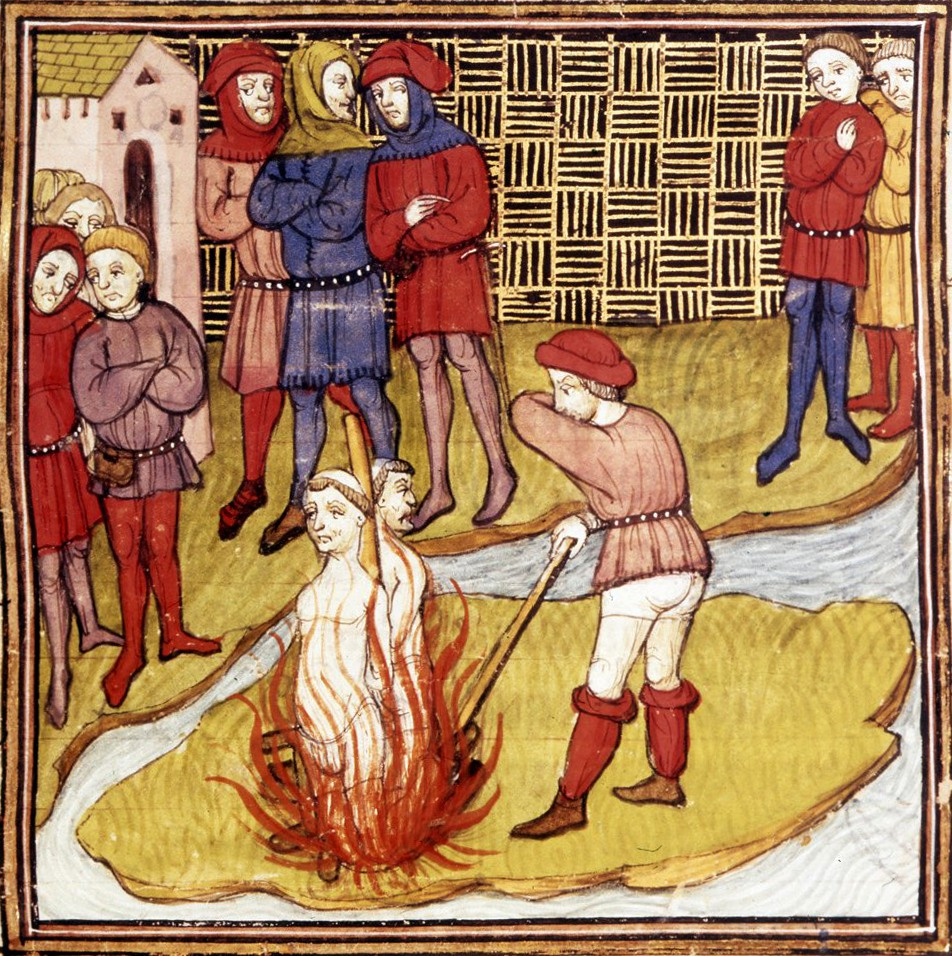 Detail of a miniature of the burning of the Grand Master of the Templars and another Templar. From the Chroniques de France ou de St Denis, BL Royal MS 20 C vii f. 48r